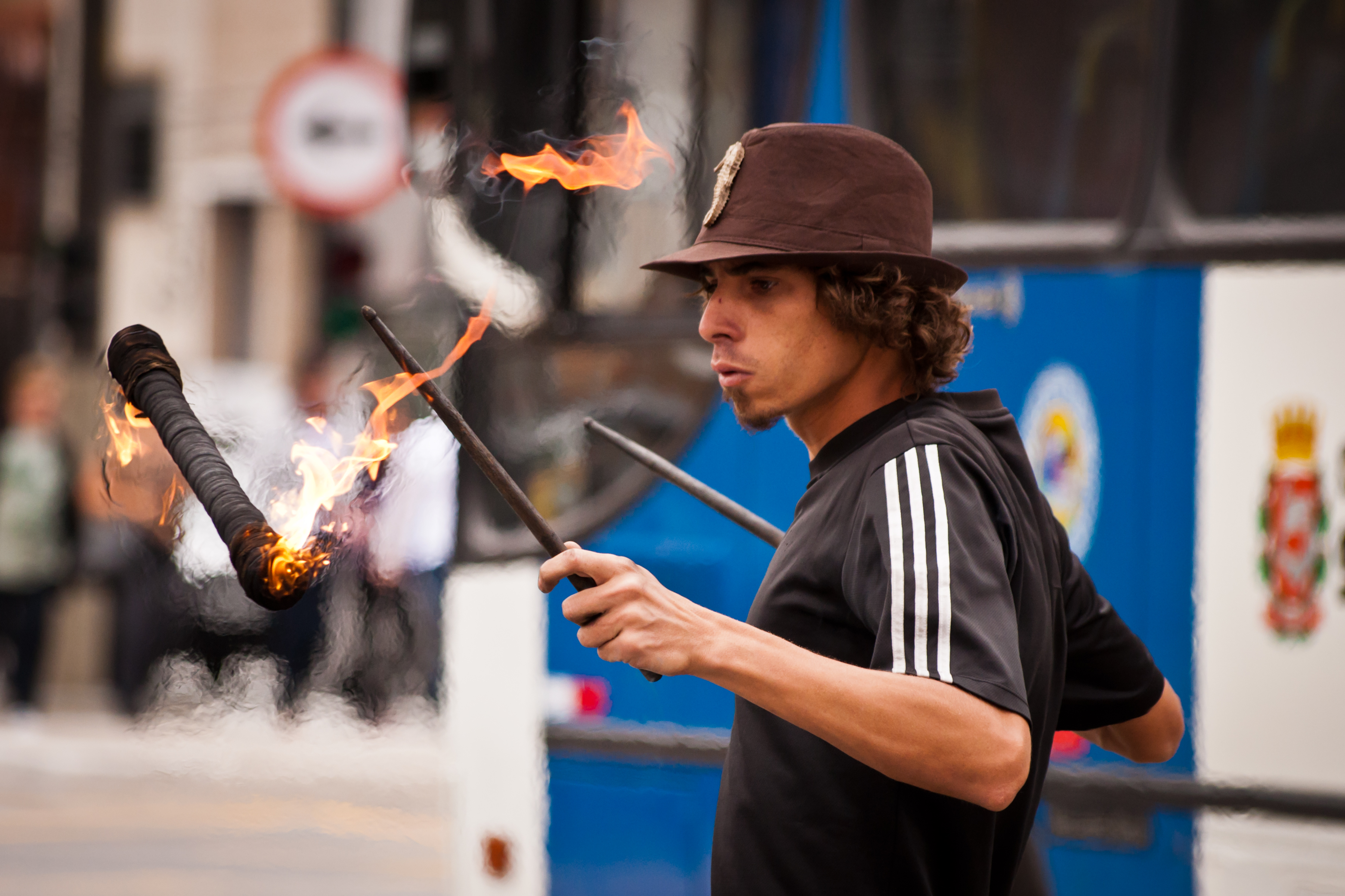 Street juggler, São Paulo - Brazil